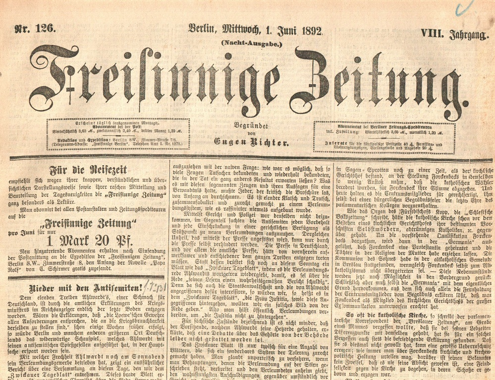 Title page of Freisinnige Zeitung of June 1, 1892 with part of the article "Nieder mit den Antisemiten!" (Down with the Antisemites!)